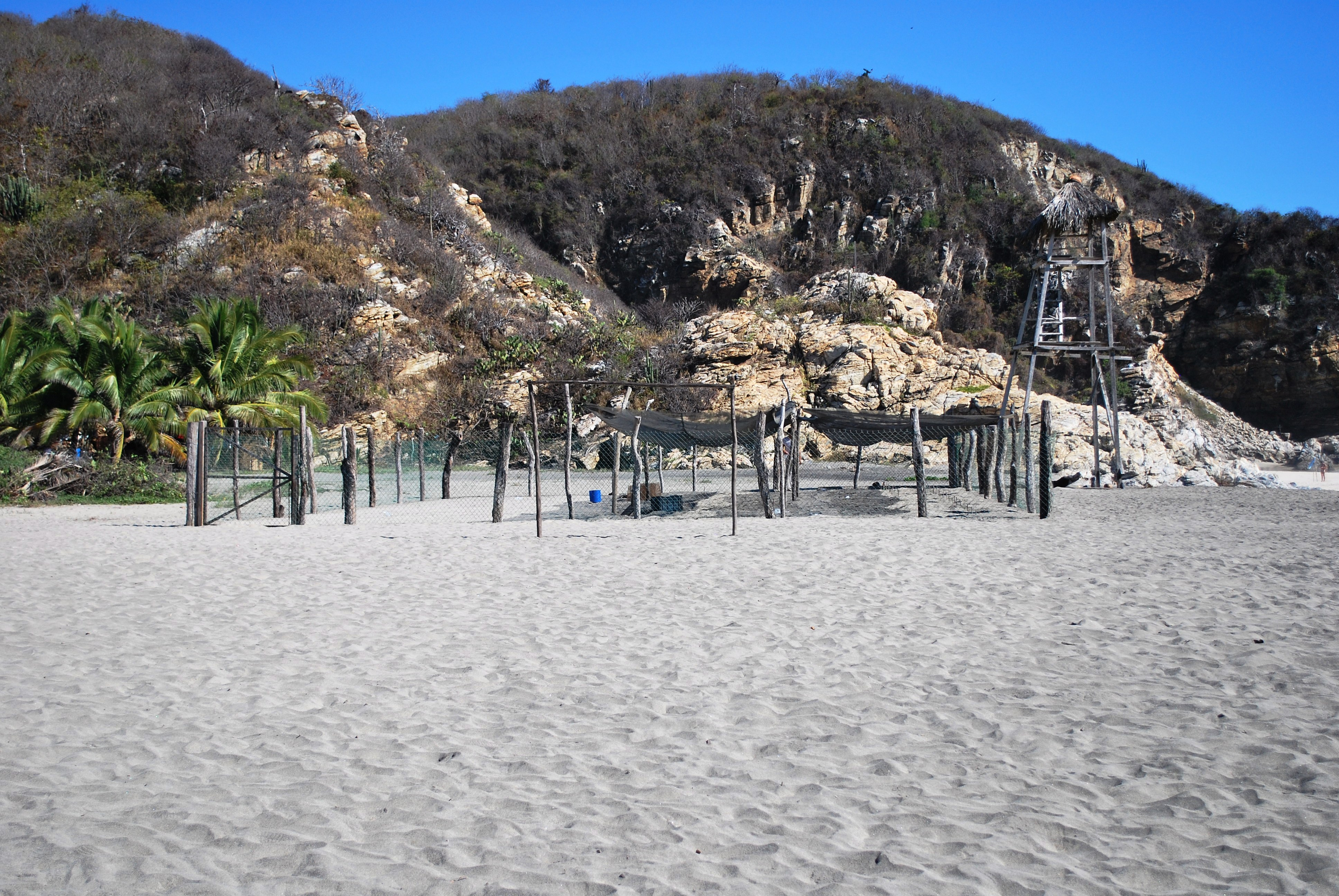 Guarded sea turtle nests at La Ventanilla, Tonameca, Oaxaca, Mexico